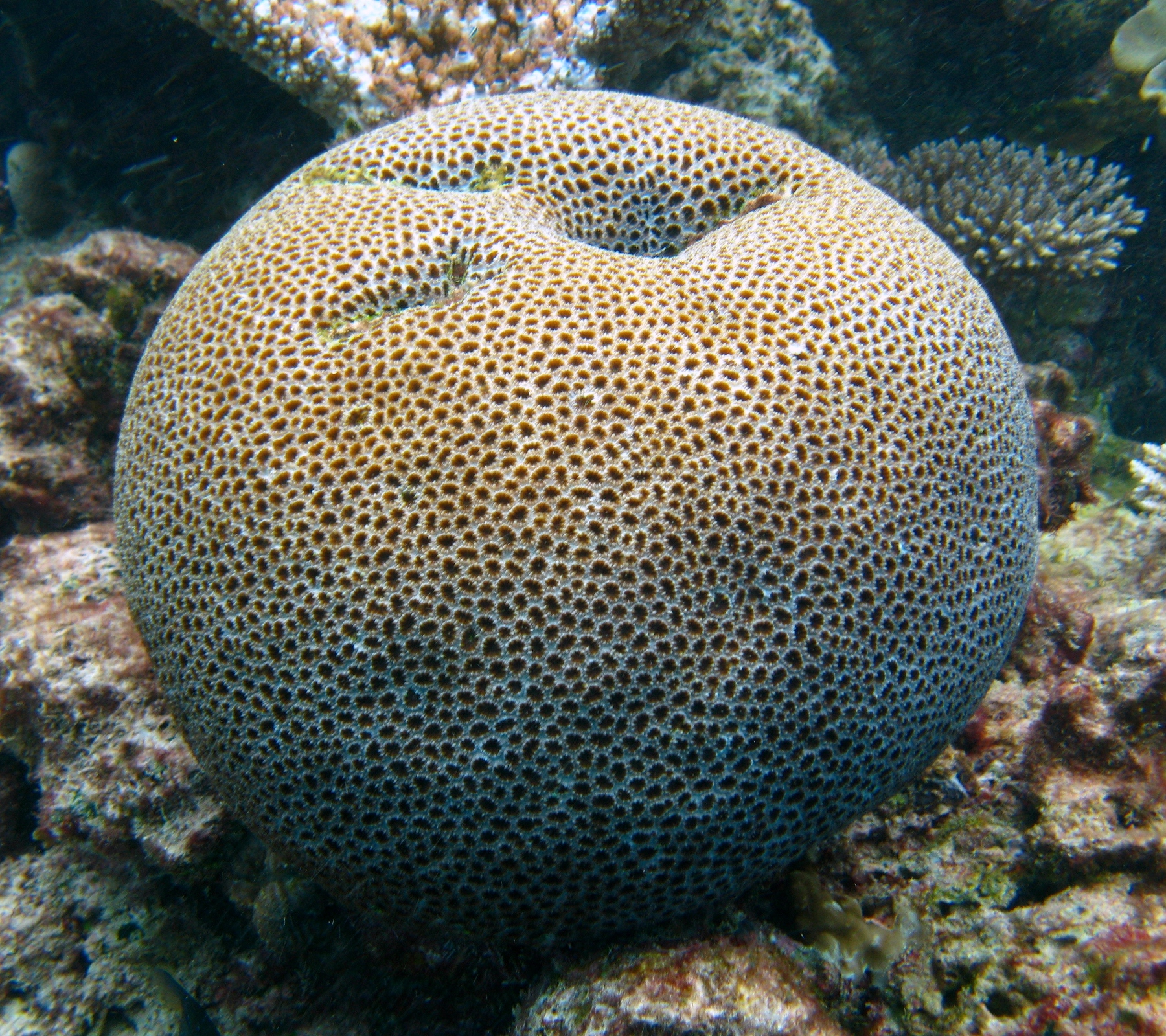 A Porites coral on Flynn Reef, part of the Great Barrier Reef near Cairns, Queensland, Australia, they can inhabit other species such as tiny fan worms. Geographic coordinates are approximate.